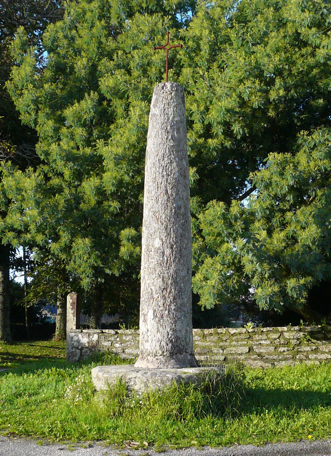 Protohistorical stone in Locamand, La Forêt-Fouesnant, Finistère, Brittany, France.